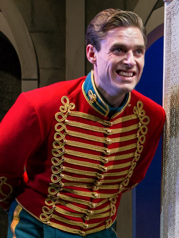 Johannes Nymark in the Copenhagen theater Folketeatret's production of the play "Frøken Nitouche" (Mam'zelle Nitouche) by Henri Meilhac and Albert Millaud.